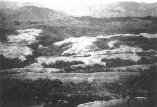 GUADALCANAL PRESENTS A VARIED TERRAIN: this view looking south over Point Cruz shows the jumble of sharp-grassed ridges, foothills and mountainous jungle which was Guadalcanal.